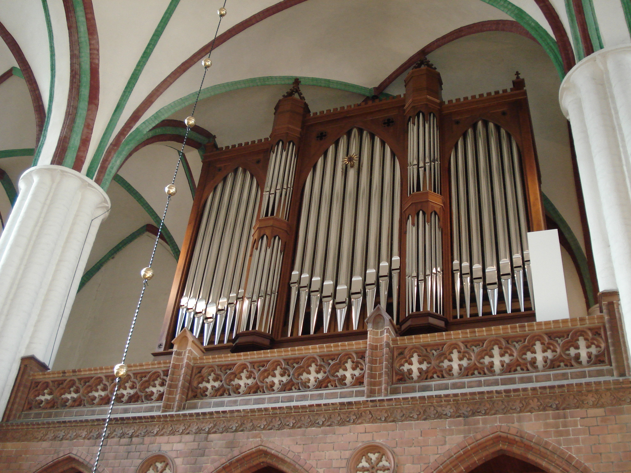 Big organ of the Nikolaikirche in Berlin